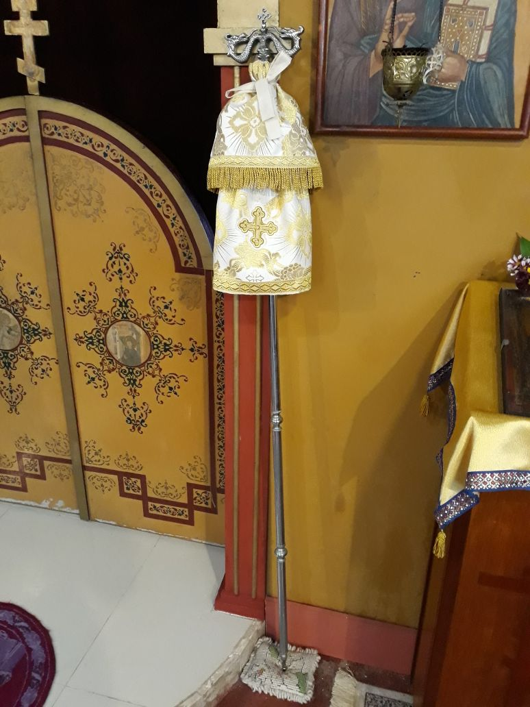 Paterissa of Archbishop Chrysostom of Rio de Janeiro and Olinda-Recife resting near the royal doors of the Most Holy Orthodox Cathedral.